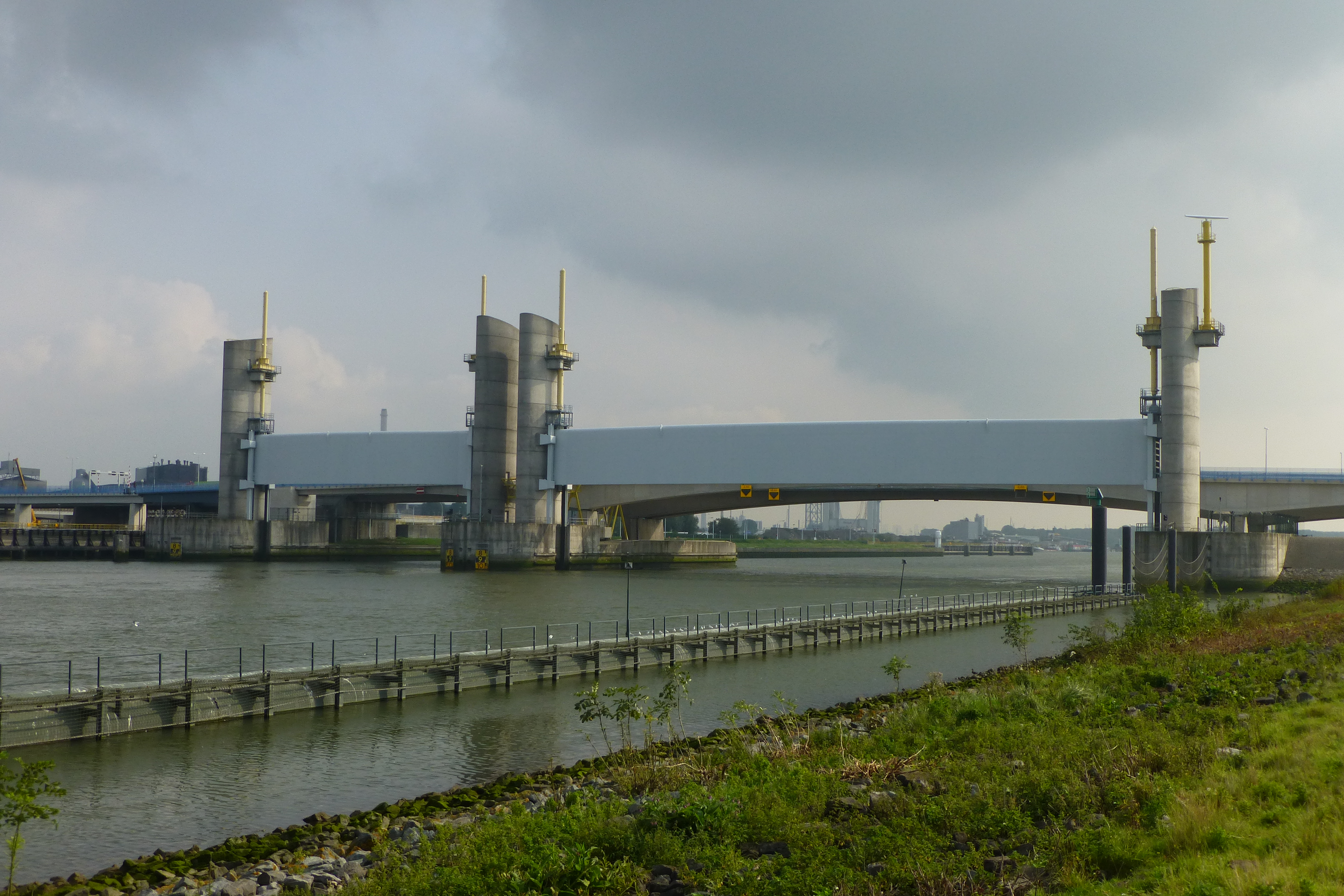 Storm surge barrier in the Hartelkanaal, near Rotterdam, the Netherlands